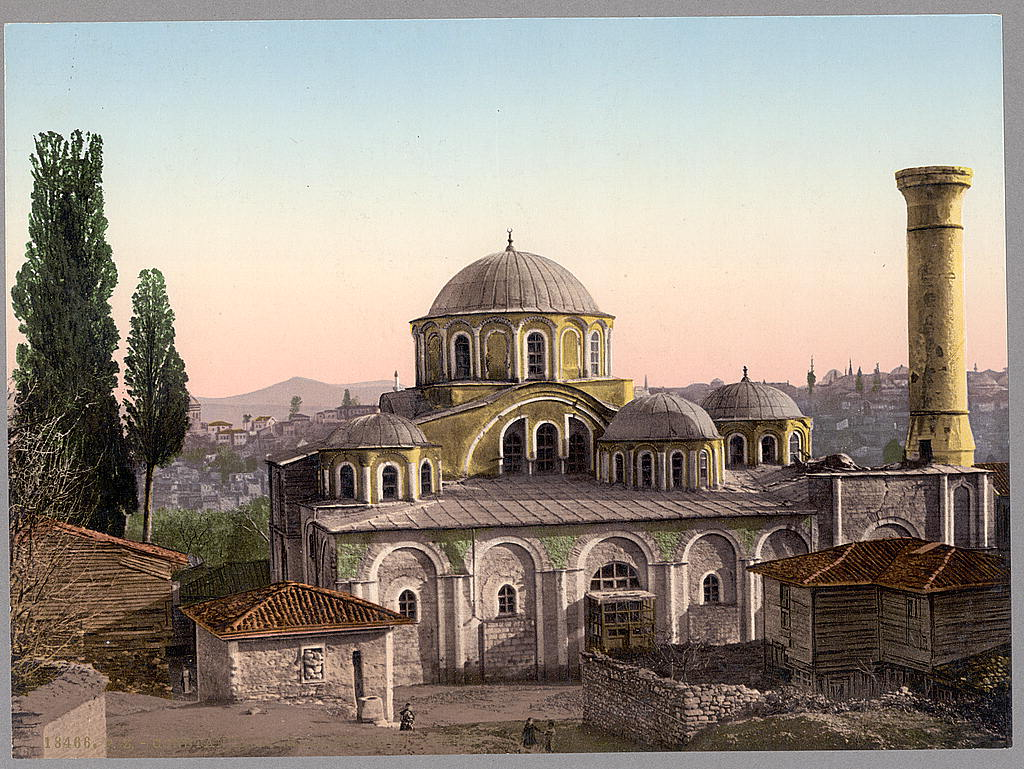 From Library of Congress. TITLE: [Kariye mosque, Istanbul, Turkey] CALL NUMBER: FOREIGN GEOG FILE - Turkey [item] [P&P] REPRODUCTION NUMBER: LC-DIG-ppmsca-03041 (digital file from original) No known restrictions on publication. MEDIUM: 1 photomechanical print : photochrom, color. CREATED/PUBLISHED: [between ca. 1890 and ca. 1900] NOTES: Title devised by Library staff. Print no. "18466." SUBJECTS: Kariye Camii (Istanbul, Turkey)--1890-1900. Mosques--Turkey--Istanbul--1890-1900. FORMAT: Photochrom prints Color 1890-1900. REPOSITORY: Library of Congress Prints and Photographs Division Washington, D.C. 20540 USA DIGITAL ID: (original) ppmsca 03041 CARD #: 2003653114